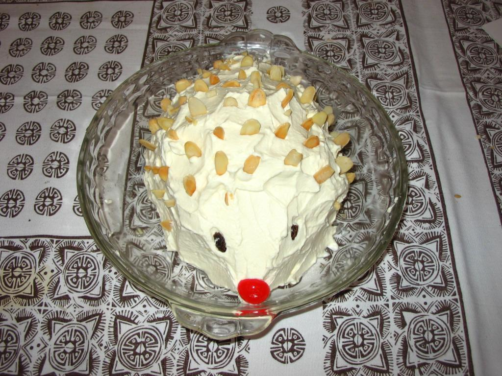 A tipsy cake is a sweet dessert cake, a variety of the English trifle. It is a popular dish in the American South, often served after dinner as a dessert or at Church socials and neighborhood gatherings. This particular version is shaped to resemble a hedgehog.